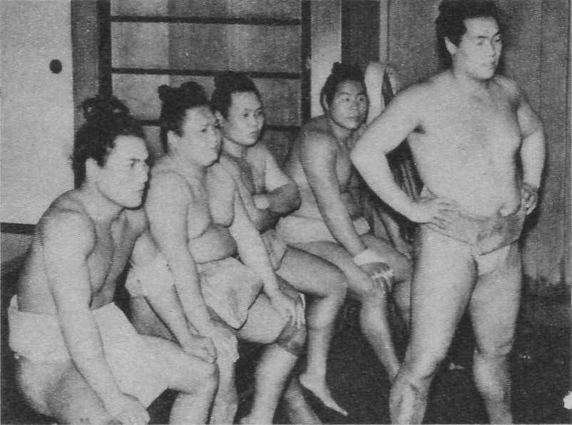 Dewanoumi stable, 1937. Right, Akinoumi Setsuo.